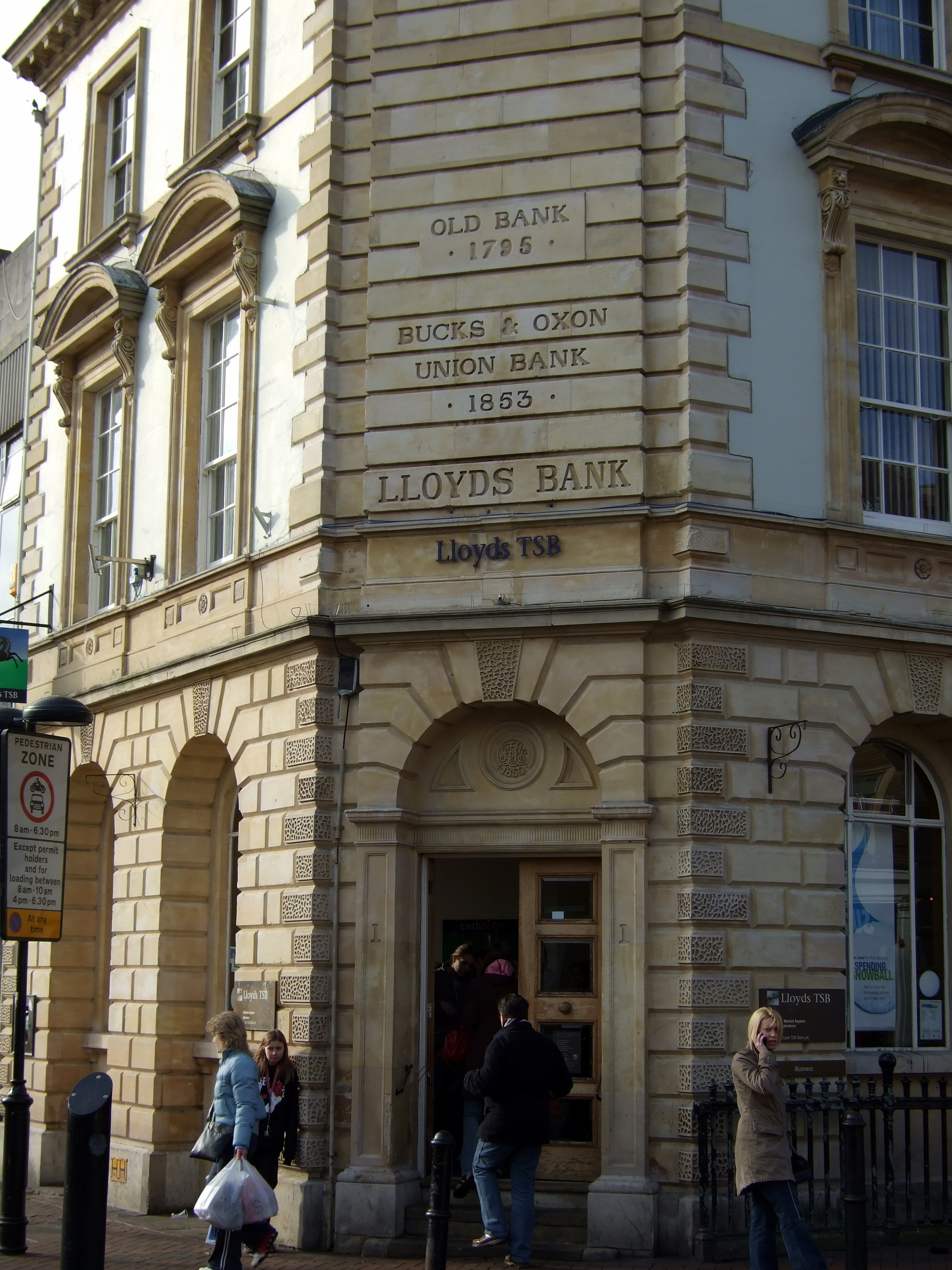 The Old Aylesbury Bank was founded in 1795. The Bucks and Oxon Union Bank was formed in 1853 as a merger (and this building dates from then). Lloyds Bank acquired the bank in 1902. Lloyds merged with TSB to form Lloyds TSB in 1995.